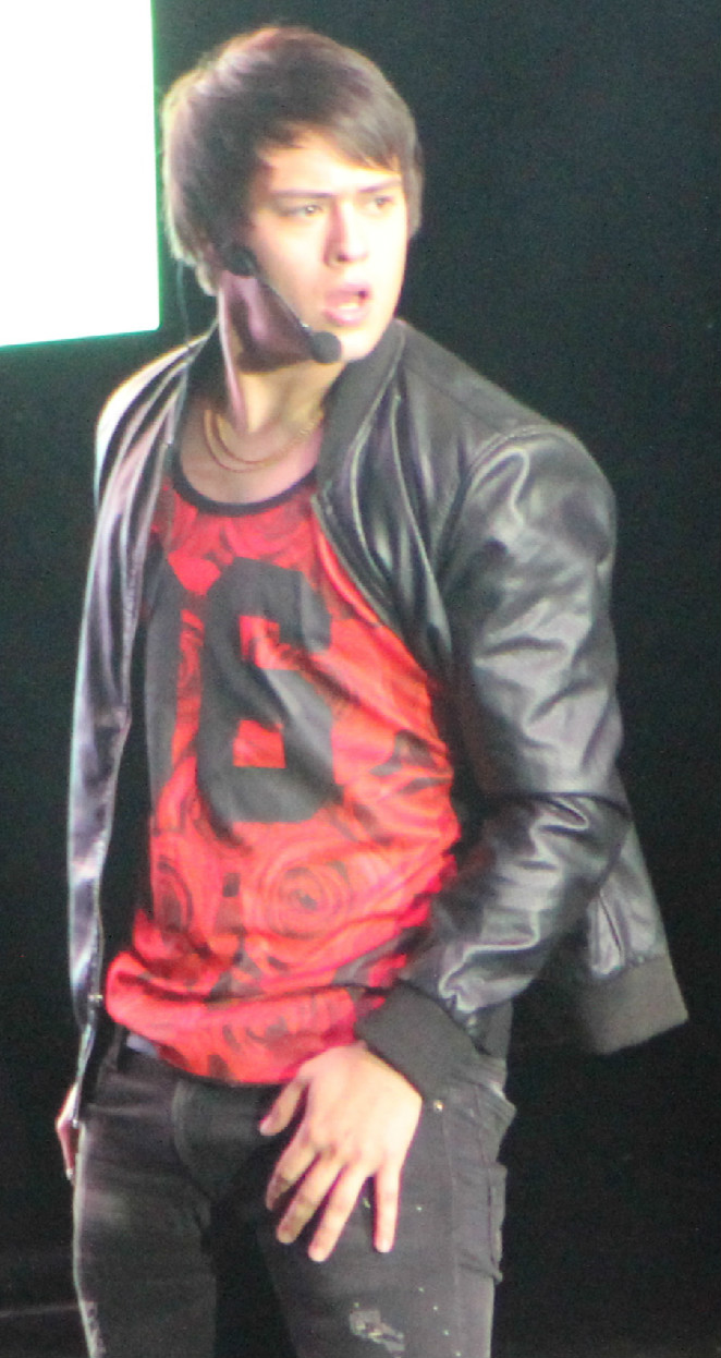 Enrique Gil singing during ABS-CBN's concert tour "One Kapamilya Go" in Toronto, Ontario on June 21, 2014